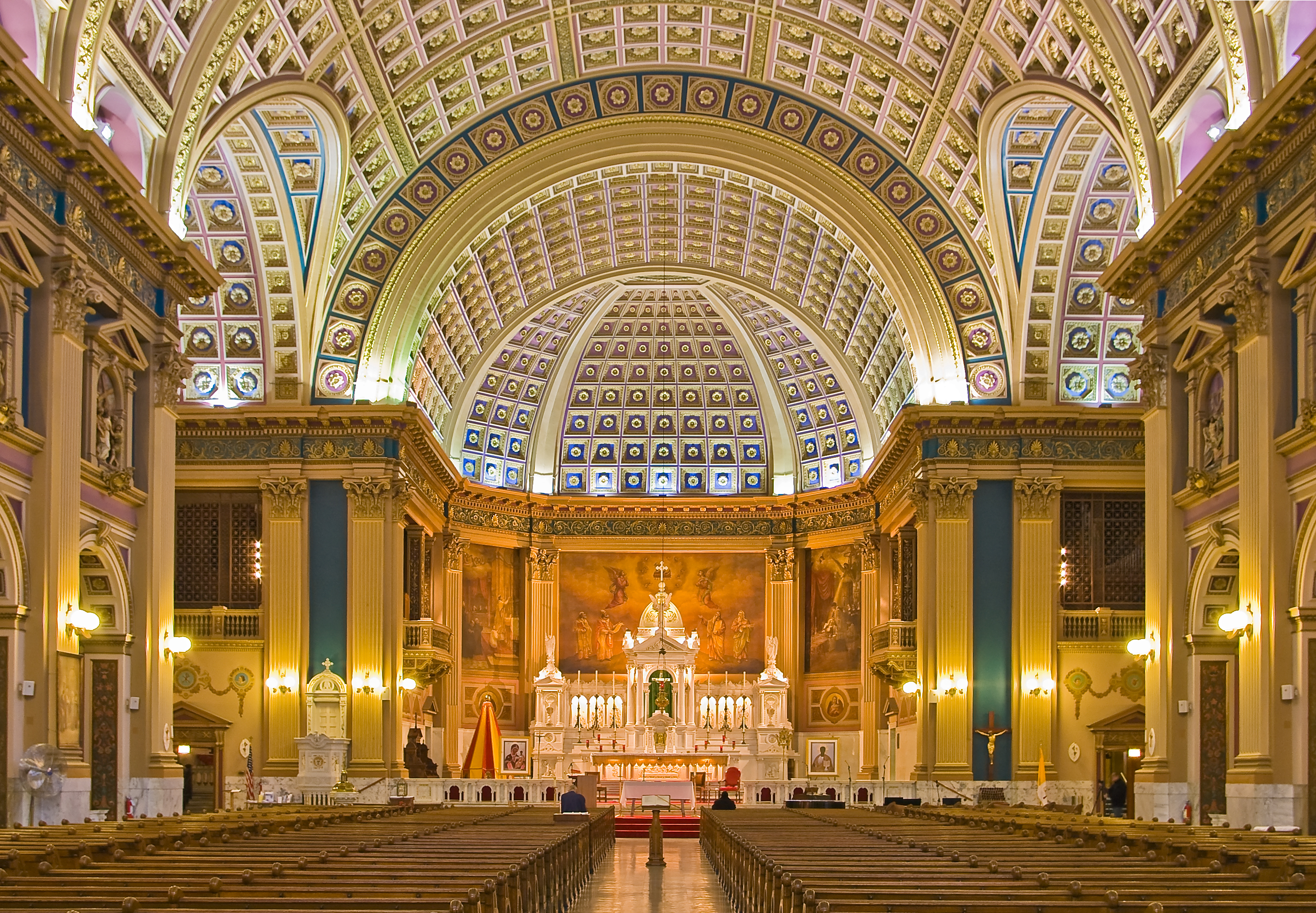 Interior of Our Lady of Sorrows Basilica & National Shrine, Chicago, Illinois.